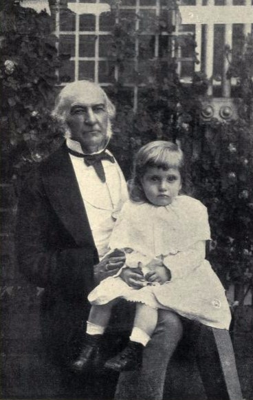 William Ewart Gladstone with his grandson William Glynne Charles Gladstone in 1887.